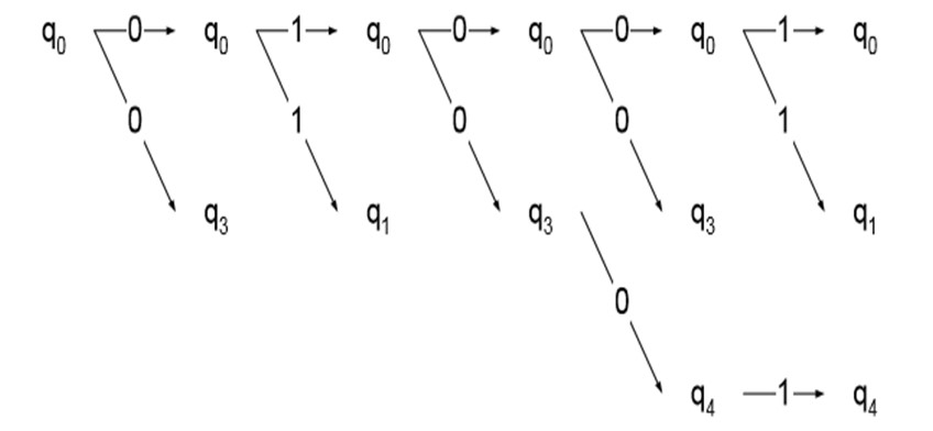 string 01001